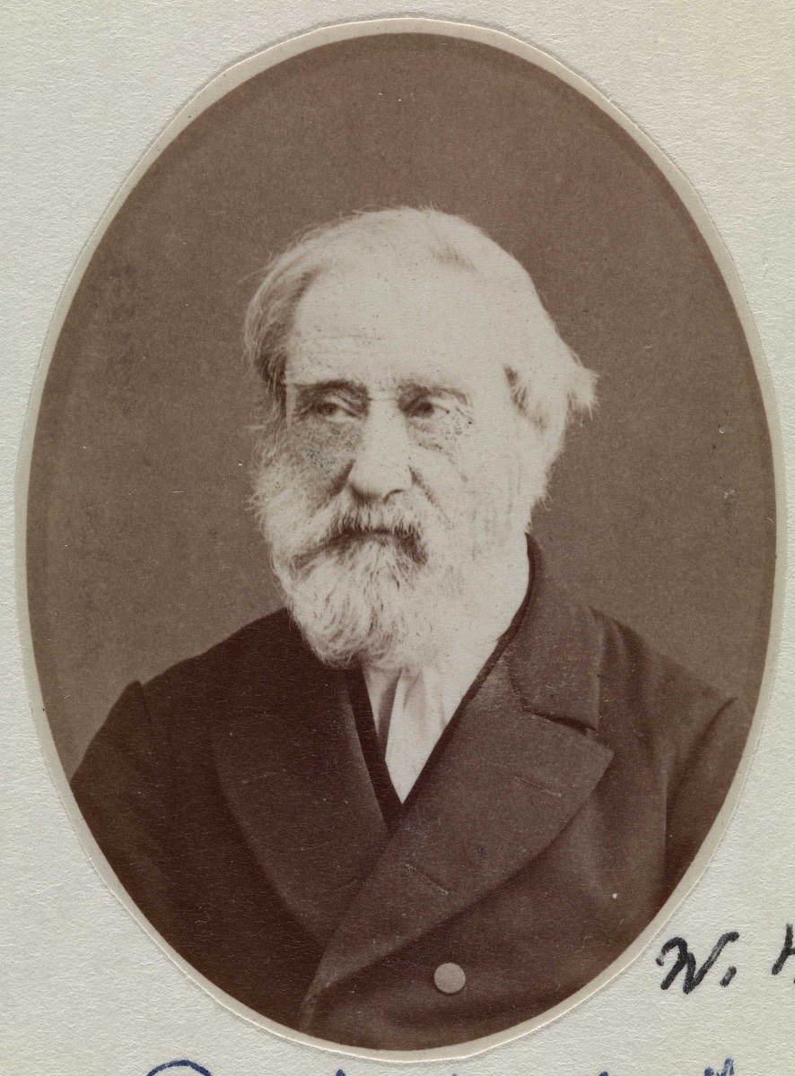 Norwegian priest and politician Frederik Rode (1800–1883), photograph from late 1870s.